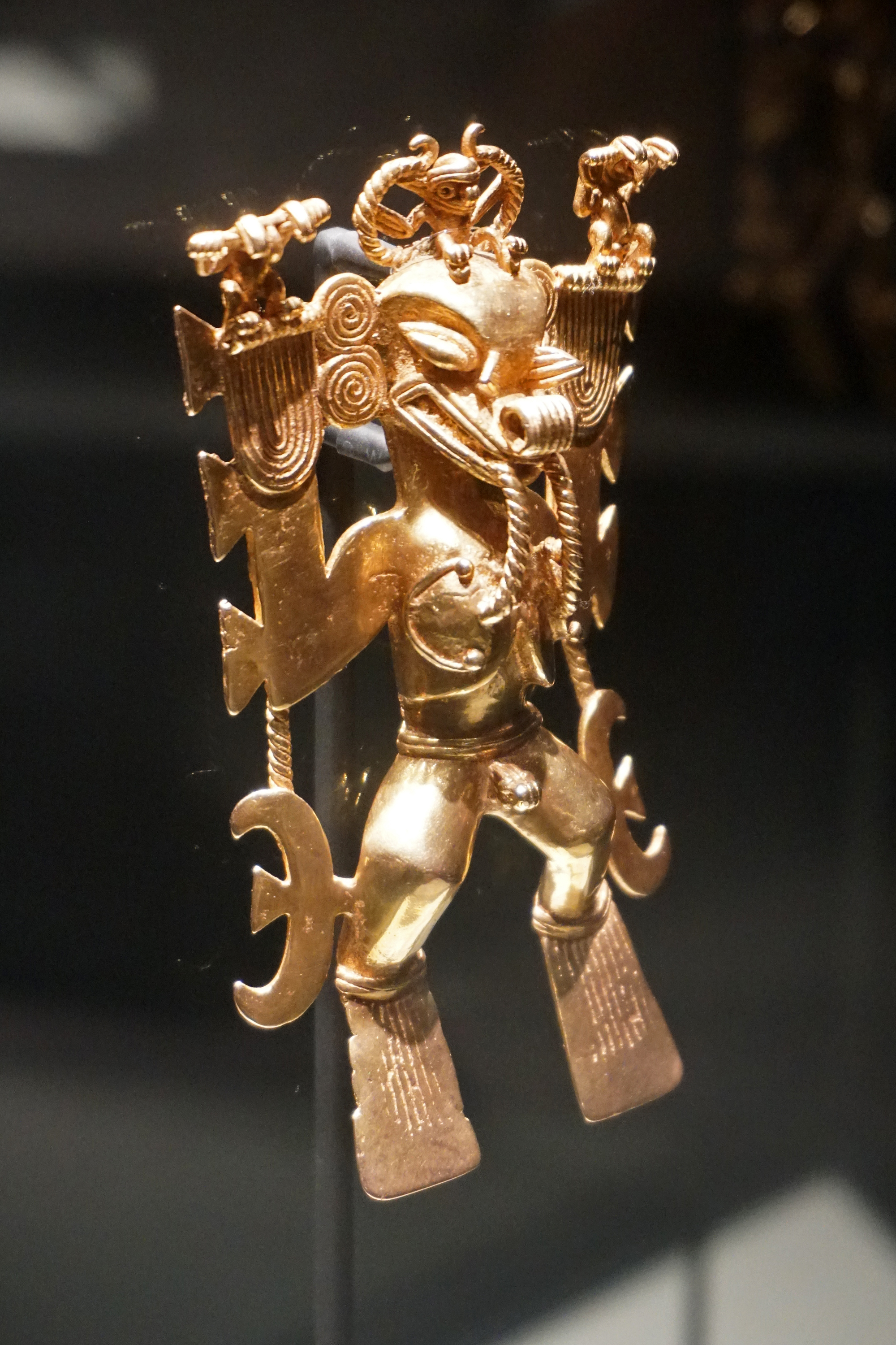 Gold pendant shaped like a shaman or specialist with superhuman qualities exhibited at the Museo de Oro Precolombino del Banco Central de Costa Rica. South Pacific Region, 700-1550 AD